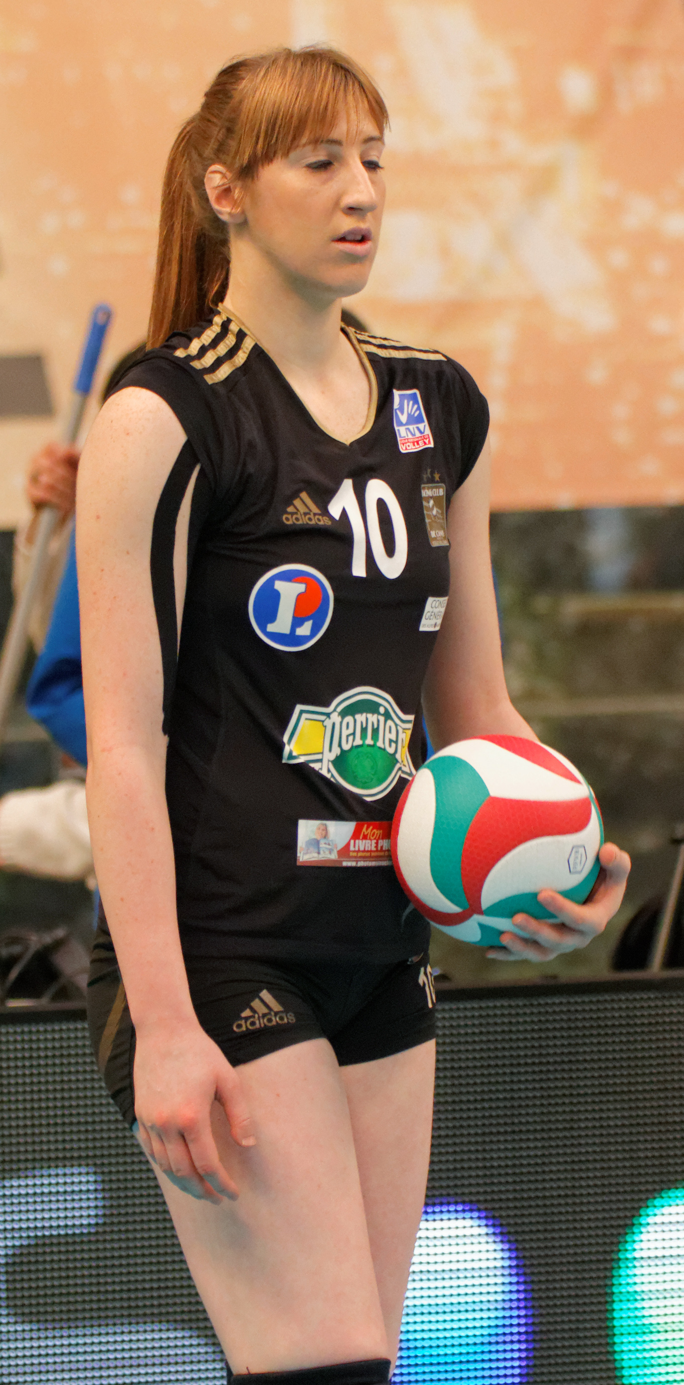 Final of the Volleyball French Cup, Racing Club de Cannes - Stella Étoile Sportive Calais, March 30, 2013.